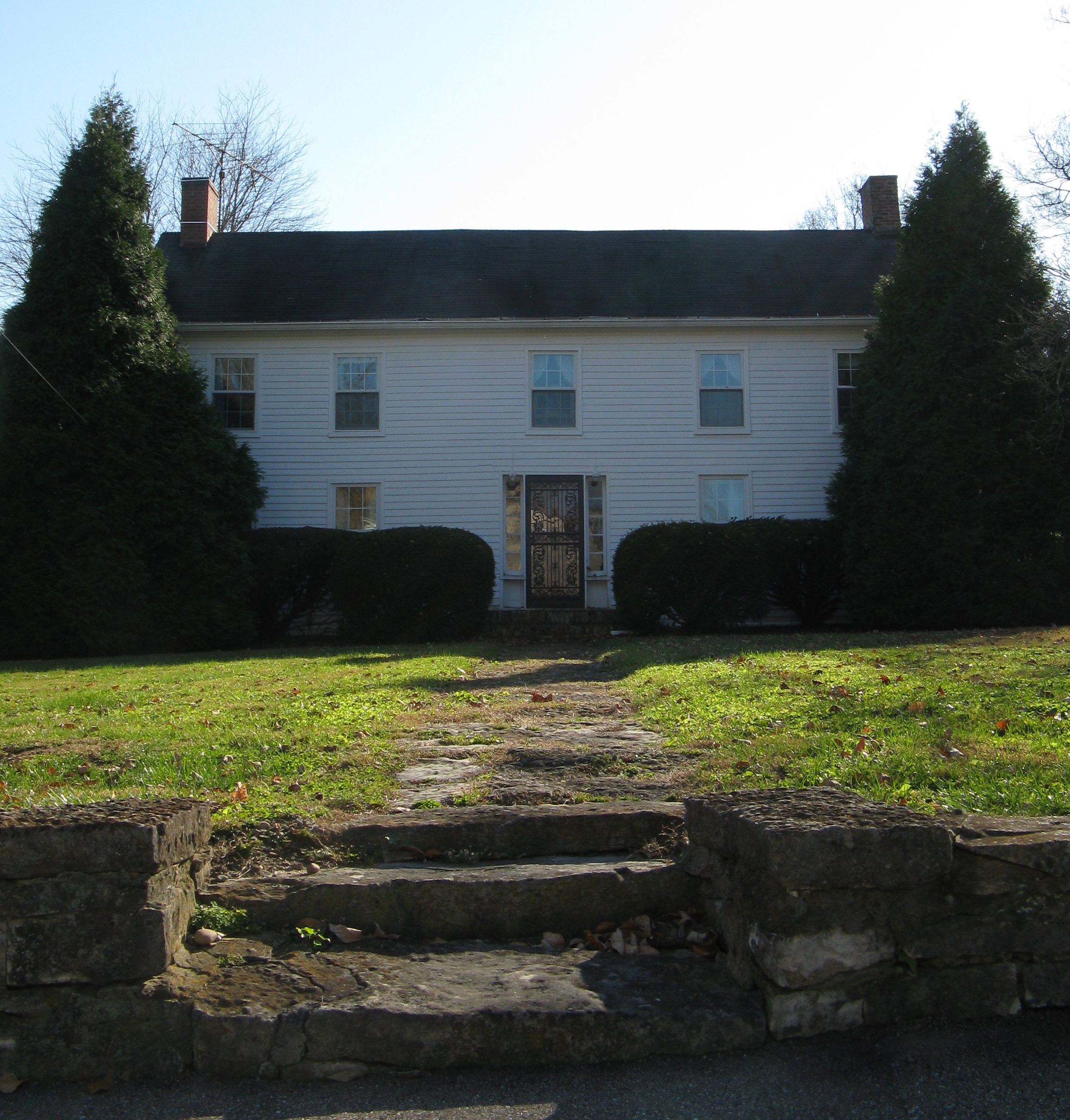 Williamson Dunn's house in Hanover, Indiana.